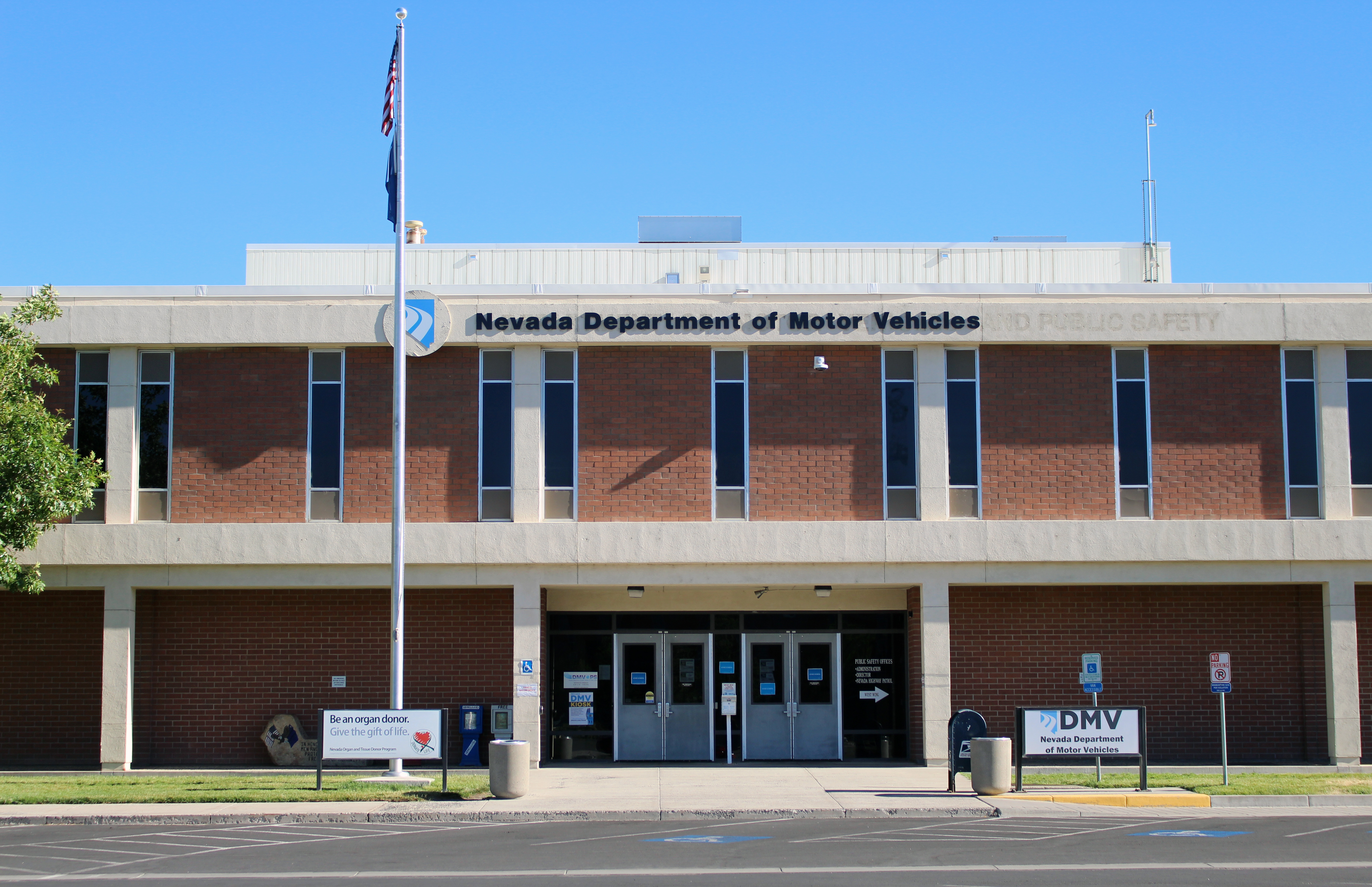 The headquarters of the Nevada Department of Motor Vehicles in Carson City, Nevada. Photographed on July 4, 2020 by user Coolcaesar.